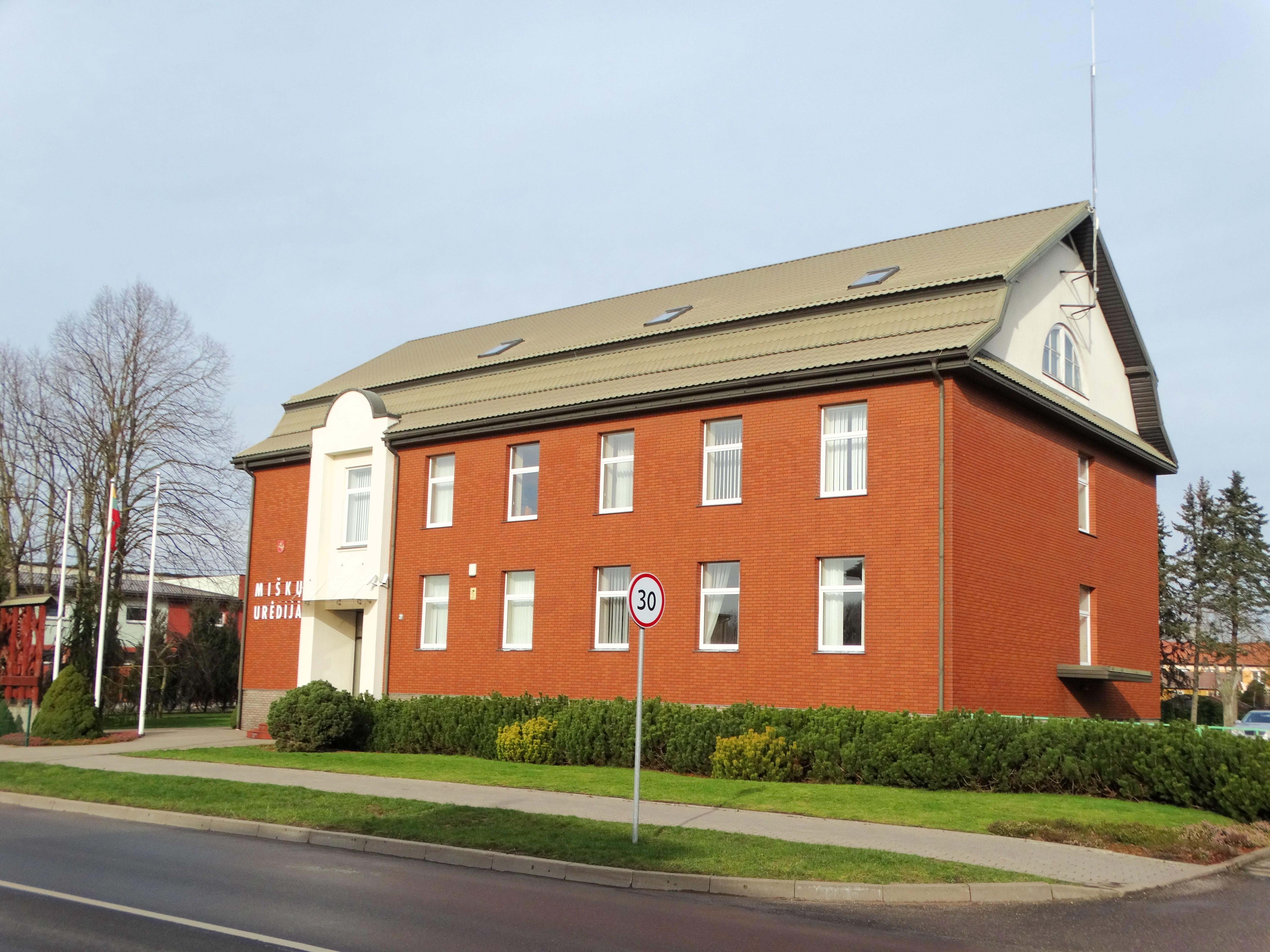 Forest enterprise, Kretinga, Lithuania